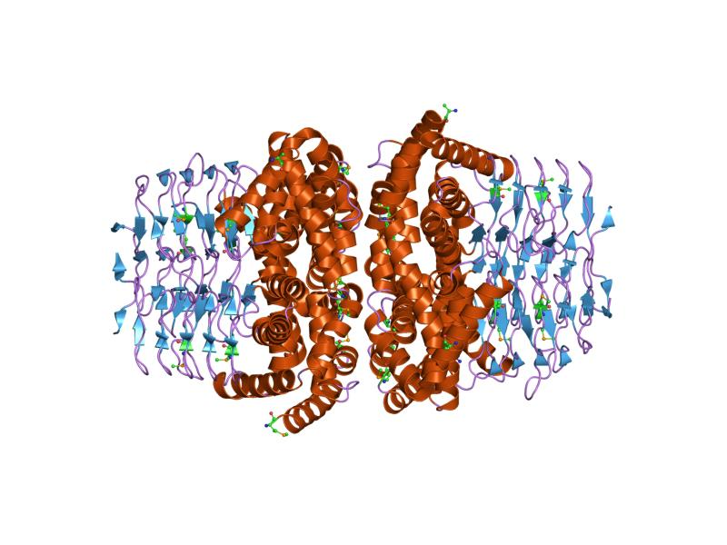 Cartoon representation of the molecular structure of protein registered with 1ssm code.